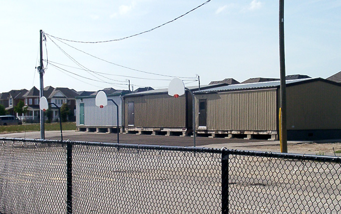 Portables located behind All Saints Catholic Elementary School, in Berczy Village, Markham, Ontario, Canada.